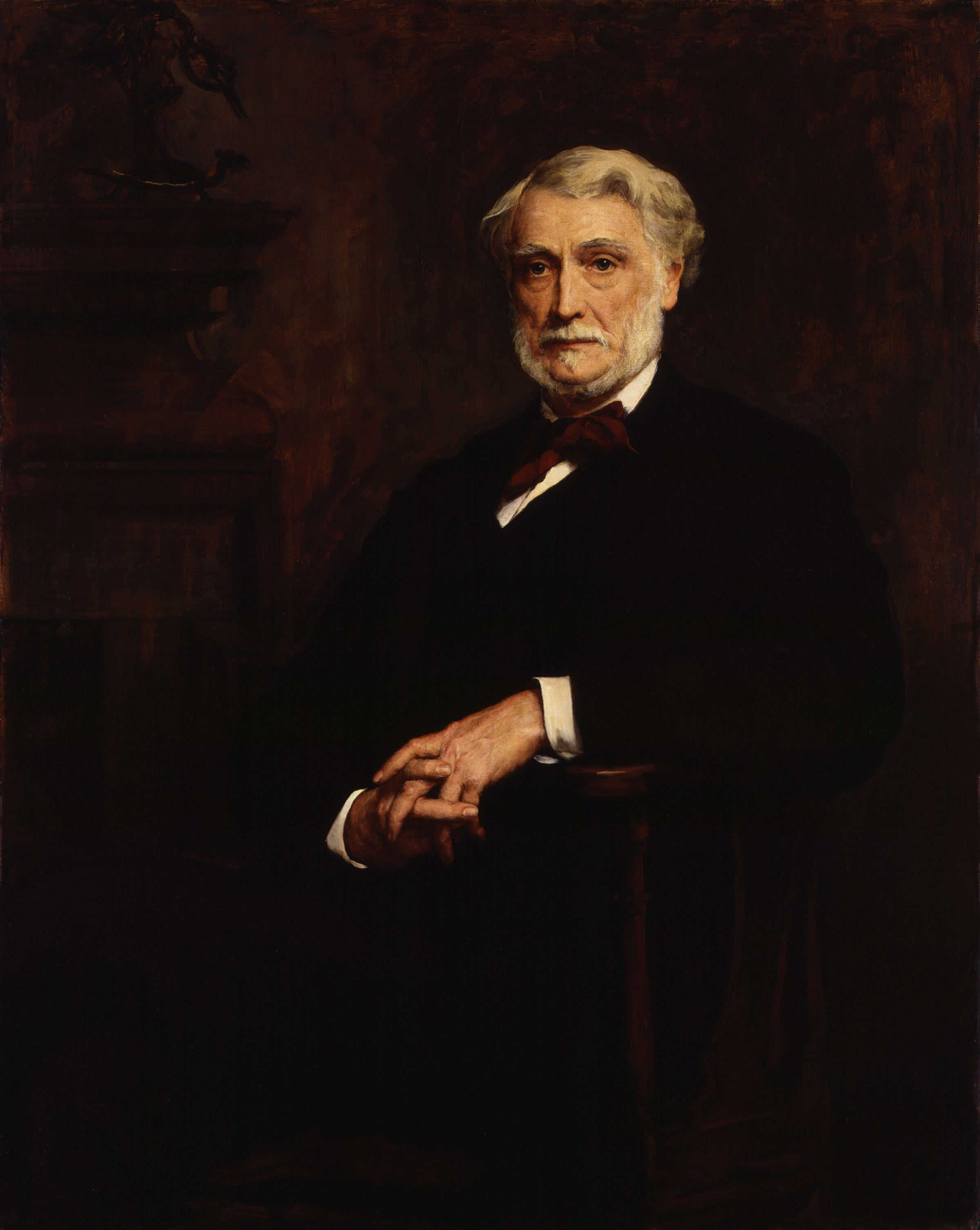 John James Robert Manners, 7th Duke of Rutland, by Walter William Ouless (died 1933), given to the National Portrait Gallery, London in 1938. All images in this batch have been confirmed as author died before 1939 according to the official death date listed by the NPG.